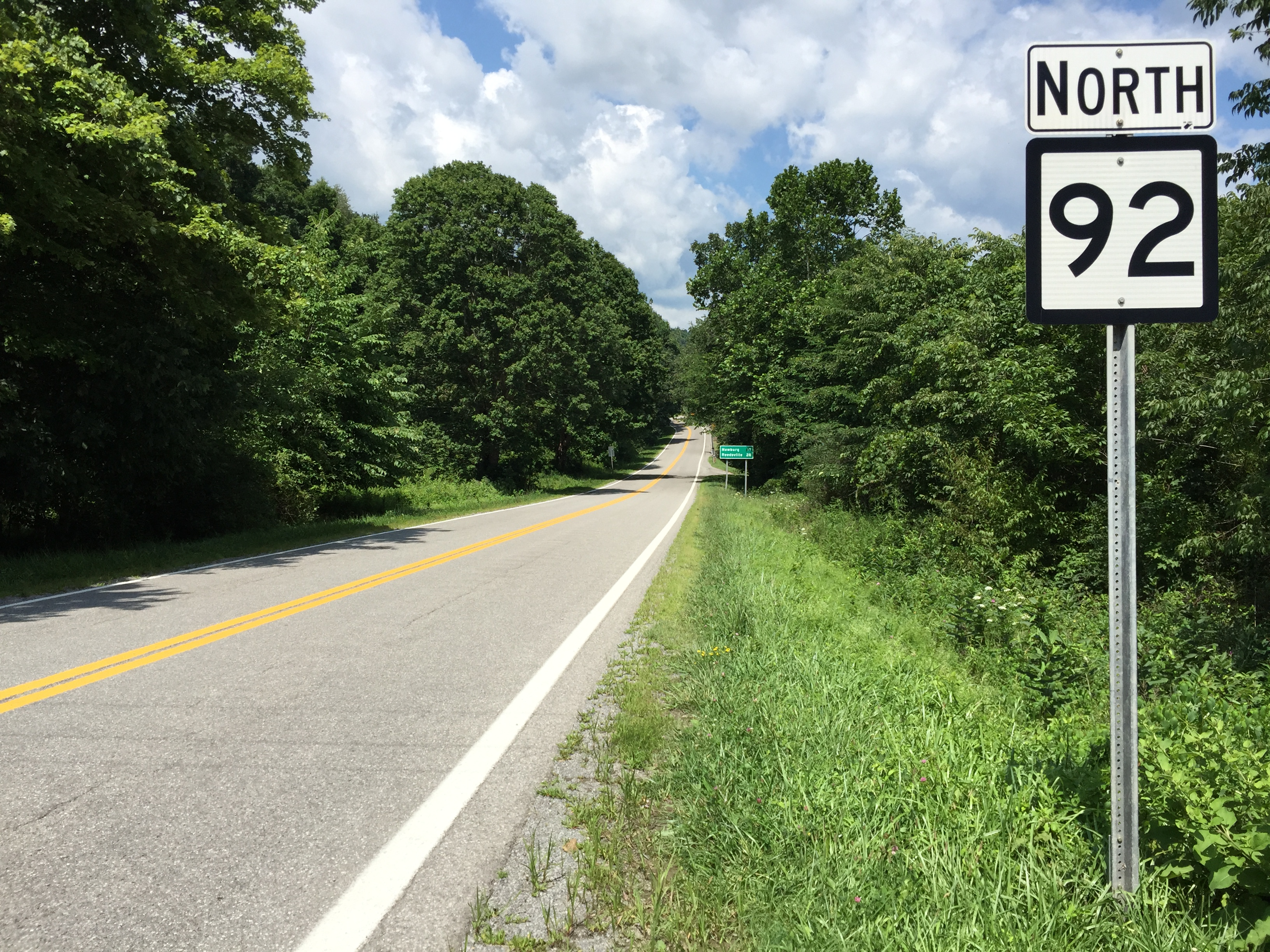 View north along West Virginia State Route 92 (Morgantown Pike) at West Virginia State Route 38 in Nestorville, Barbour County, West Virginia